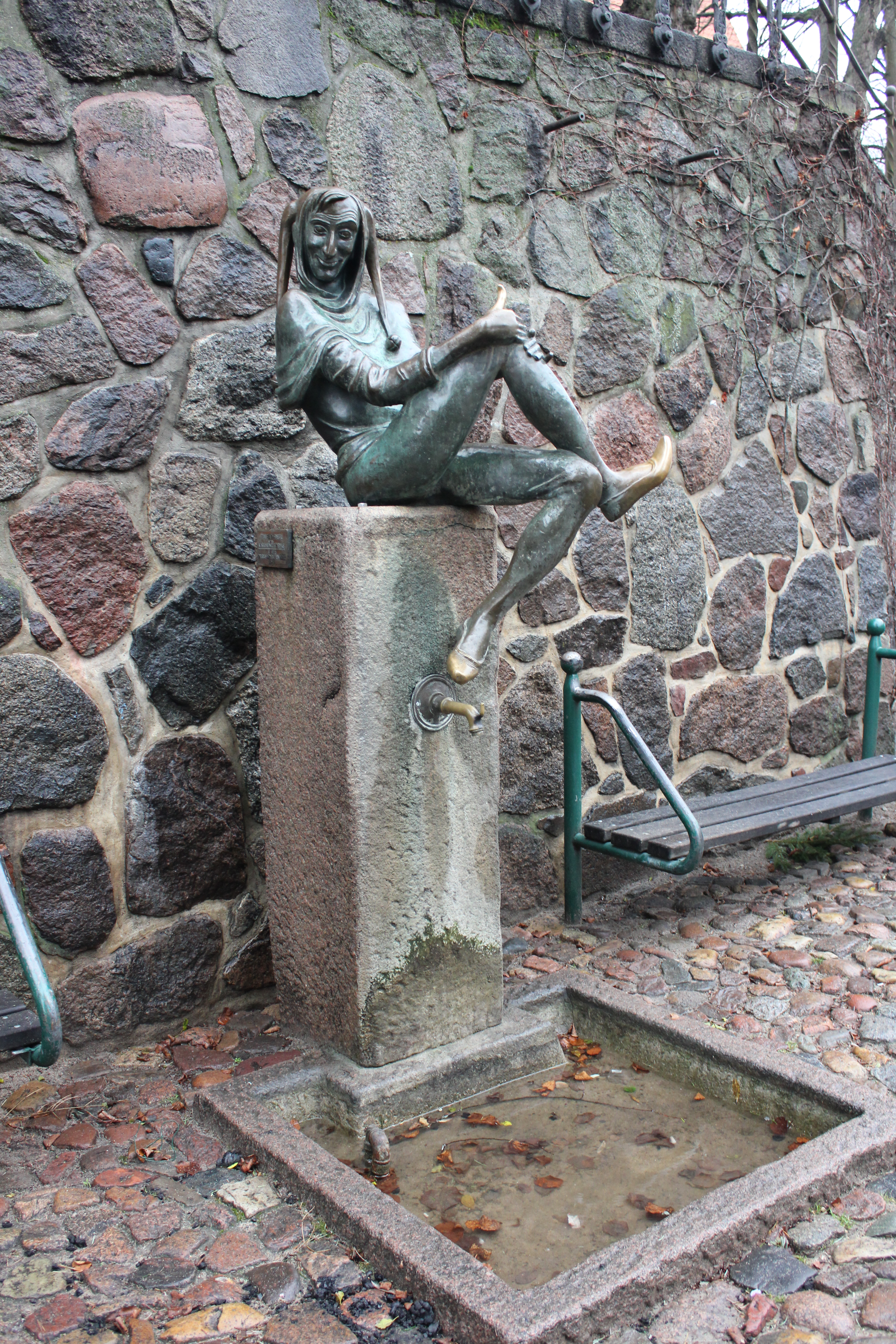 Till Eulenspiegel Fountain (well)